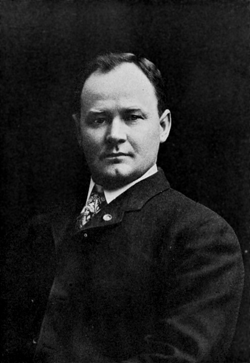 J.E. Chilberg, president of the 1909 Alaska-Yukon-Pacific Exposition. From the materials for the Alaska-Yukon-Pacific Exposition of 1909, held in Seattle.